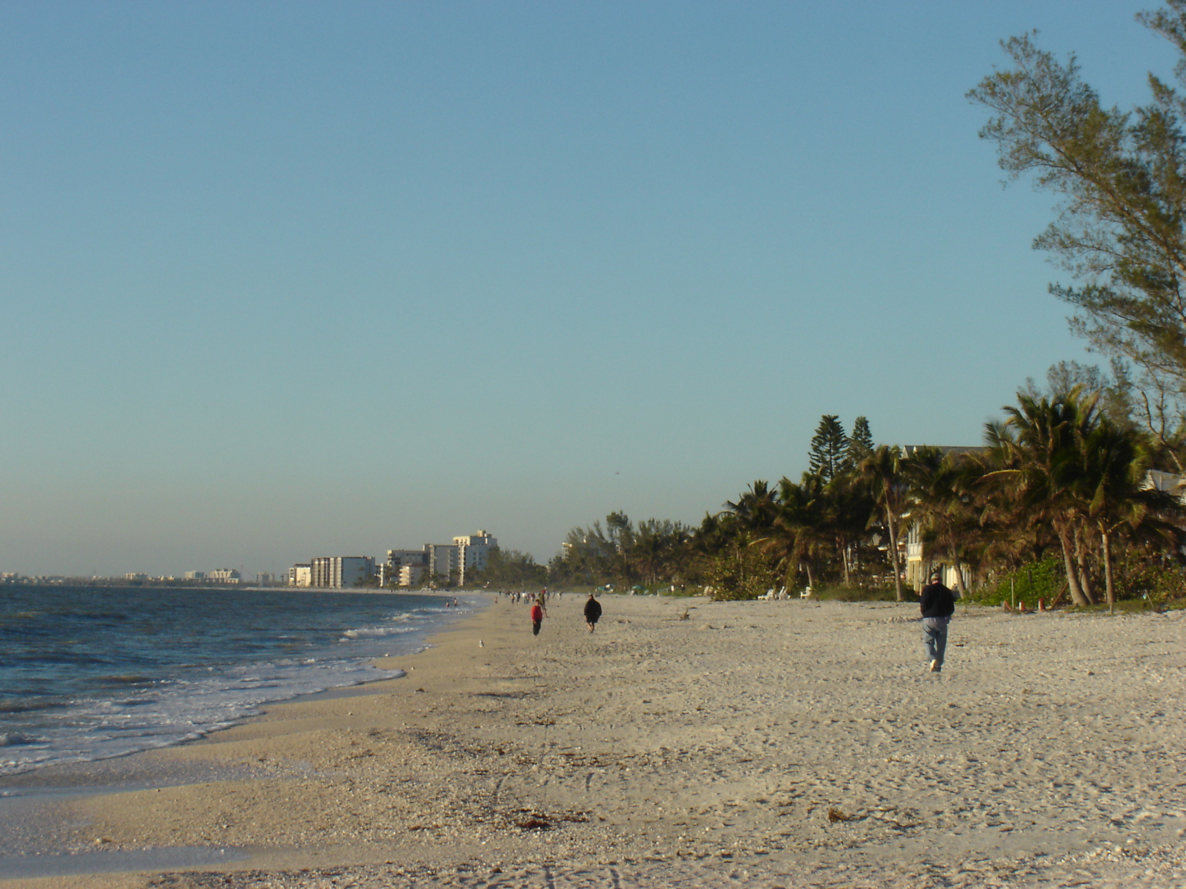 Jim Williams, Bonita Springs, FL, 12/27/05